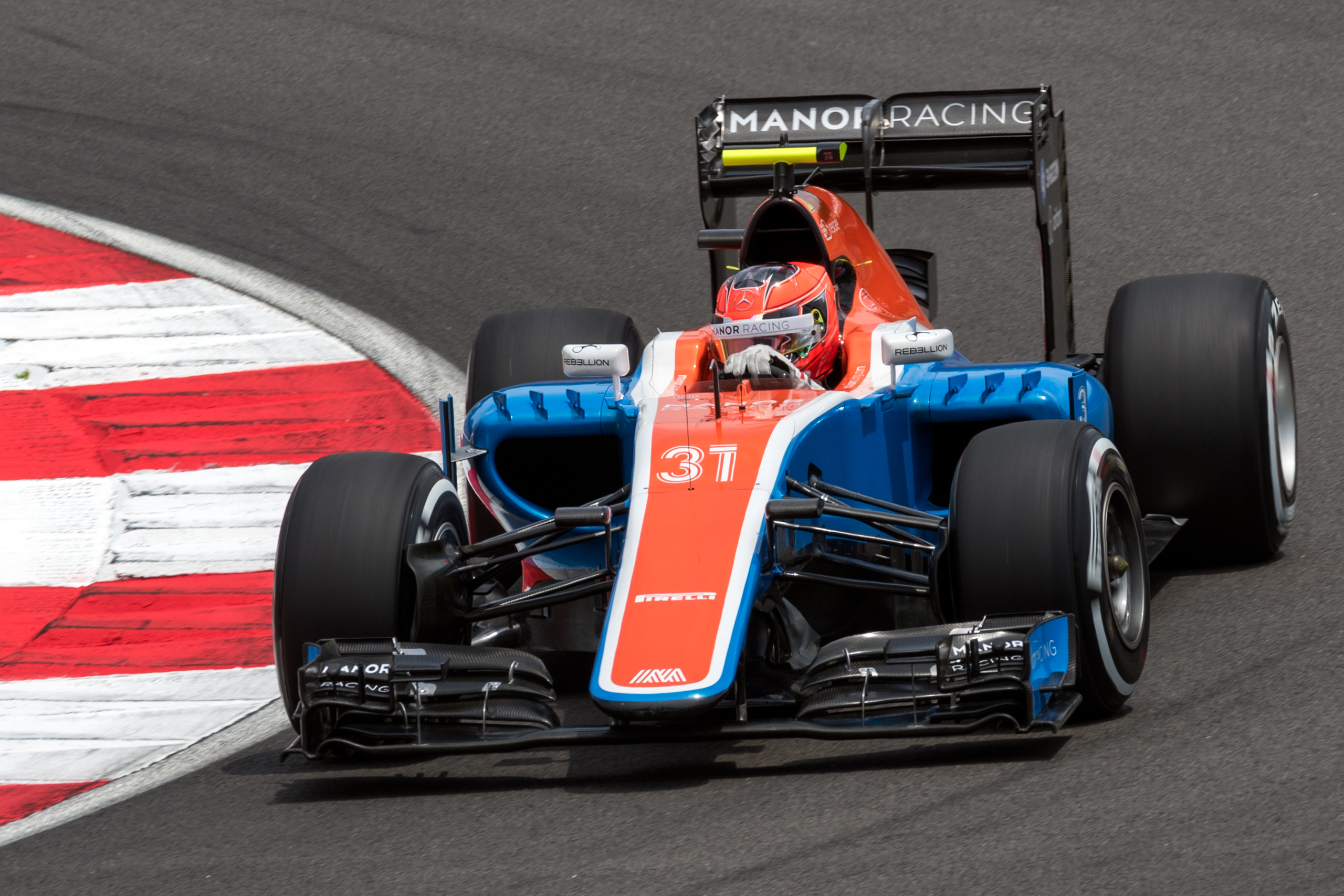 Formula One 2016 Rd.16 Malaysian GP: Esteban Ocon (MRT)